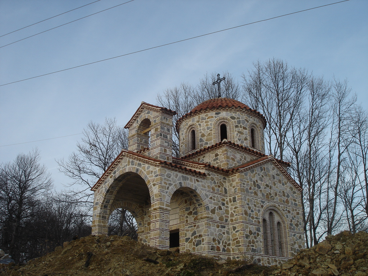 Church of St. Clement of Ohrid in Požarane, Macedonia